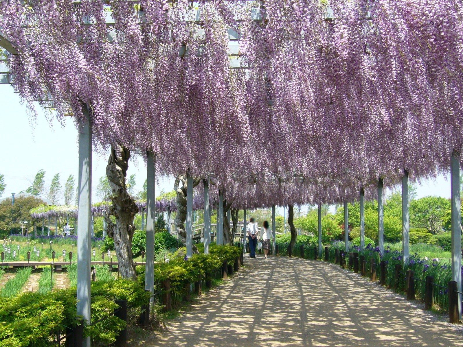 Japanese wisteria at the Suigo Sawara Ayame Park in Katori City, Chiba Prefecture, Japan